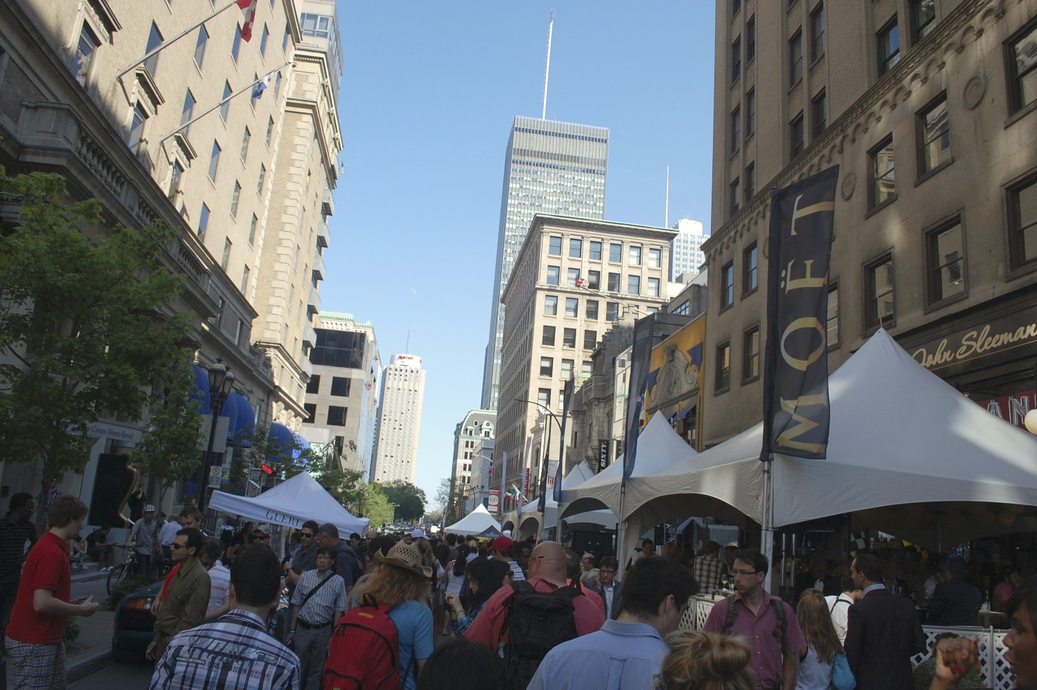 rue Peel [Ville-Marie] during Grand Prix (Montréal, Québec)